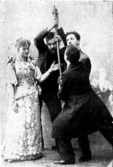 American magician Dixie Haygood (1861-1915), left, performing. Three men appear to be trying to force a billiards cue to the floor while she prevents from doing so.